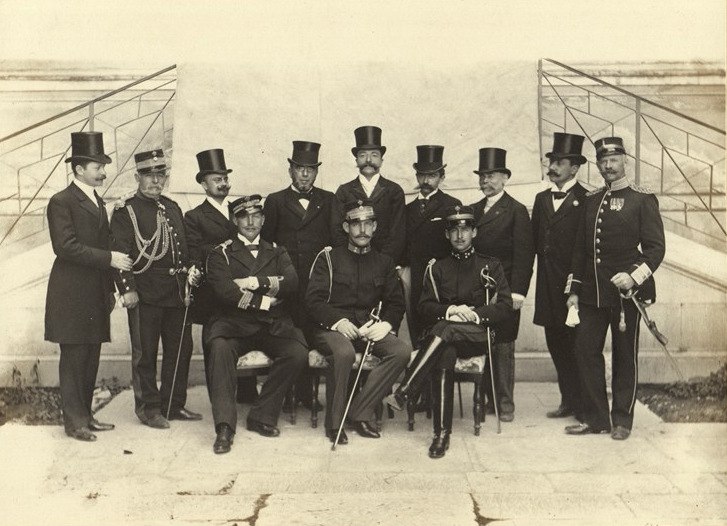 Organizing Committee of the 1896 Olympics